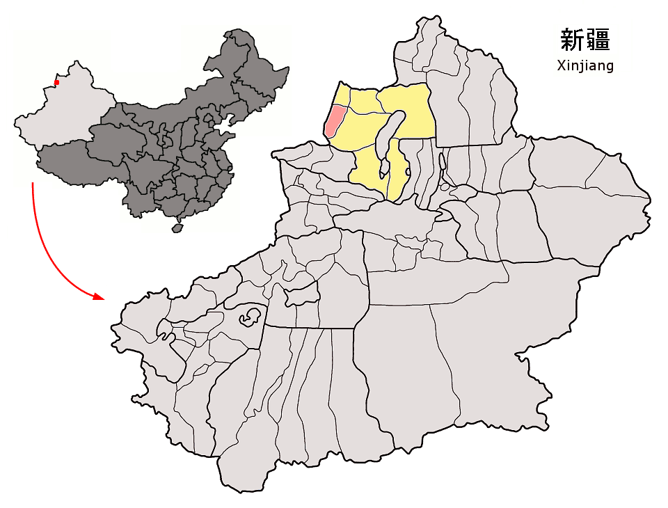 Location of Yumin County (pink) and Tacheng Prefecture (yellow) within Xinjiang autonomous region of China Map drawn in september 2007 using various sources, mainly : Xinjiang Uygur autonomous region administrative regions GIS data: 1:1M, County level, 1990 Xinjiang Counties map from